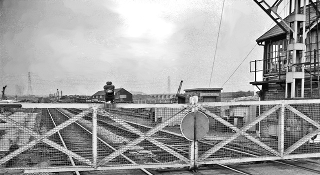 Site of Beighton Station, near to Beighton, Sheffield, Great Britain. View northward, towards Sheffield (Victoria); ex-GCR Sheffield (Victoria) - Nottingham (Victoria) - Leicester (Central) - London, etc. Main line. Beighton Station had closed on 1/11/54, and this 'London Exrension' from Sheffield lost its main line status in 1960, Woodhouse Junction - Annesley being closed on 4/3/63 and southward from Annesley mainly from 5/9/66.